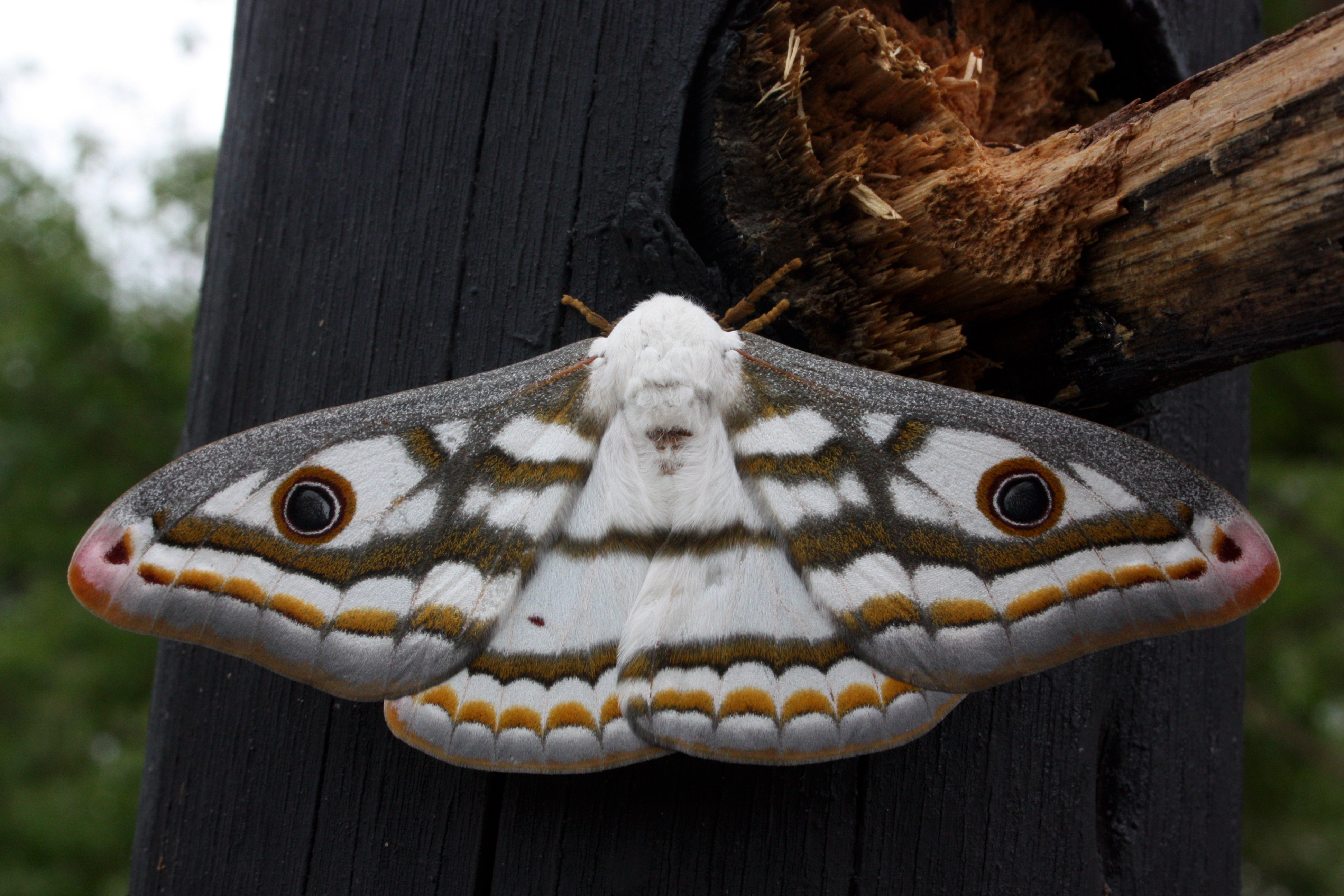 Marbled emperor moth (Heniocha dyops) in the Okavango Delta, Botswana